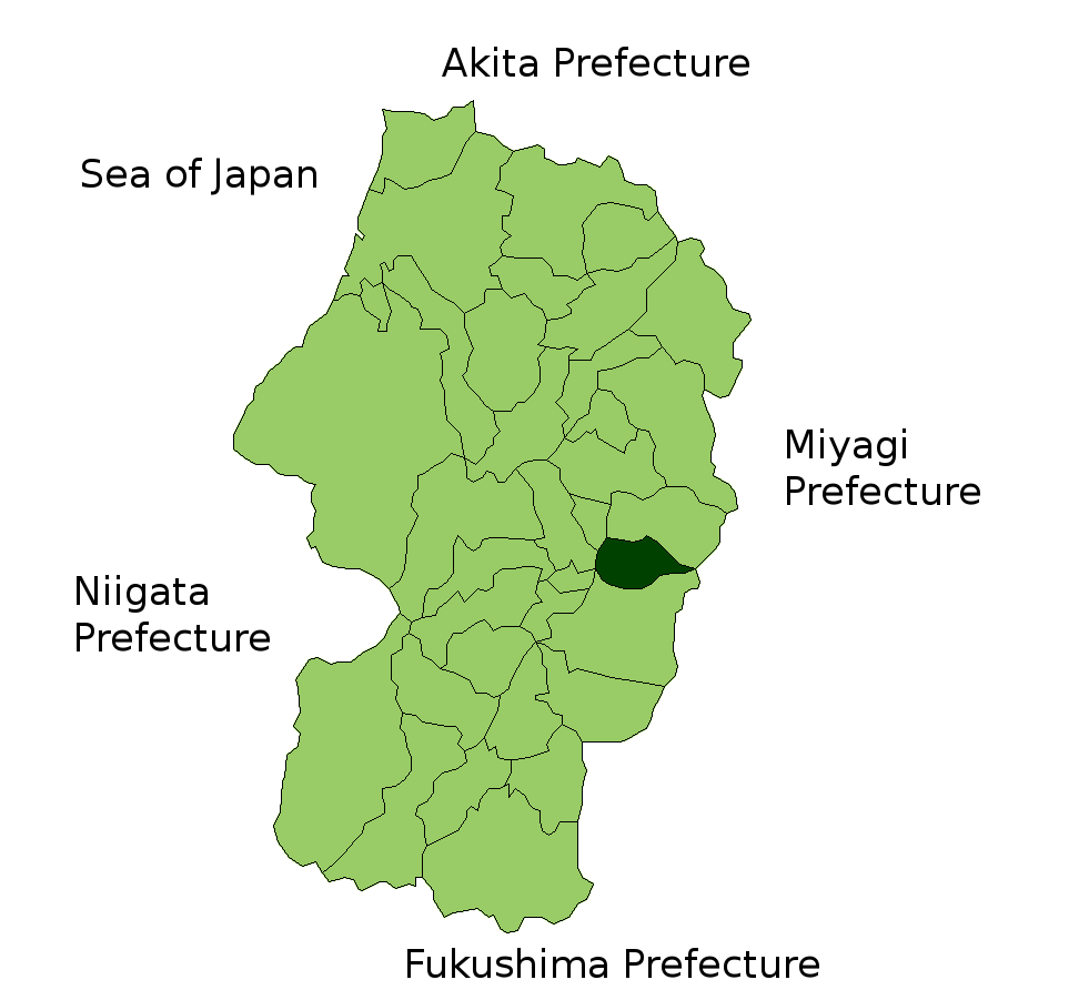 Location Map of Tendo in Yamagata Prefecture, Japan